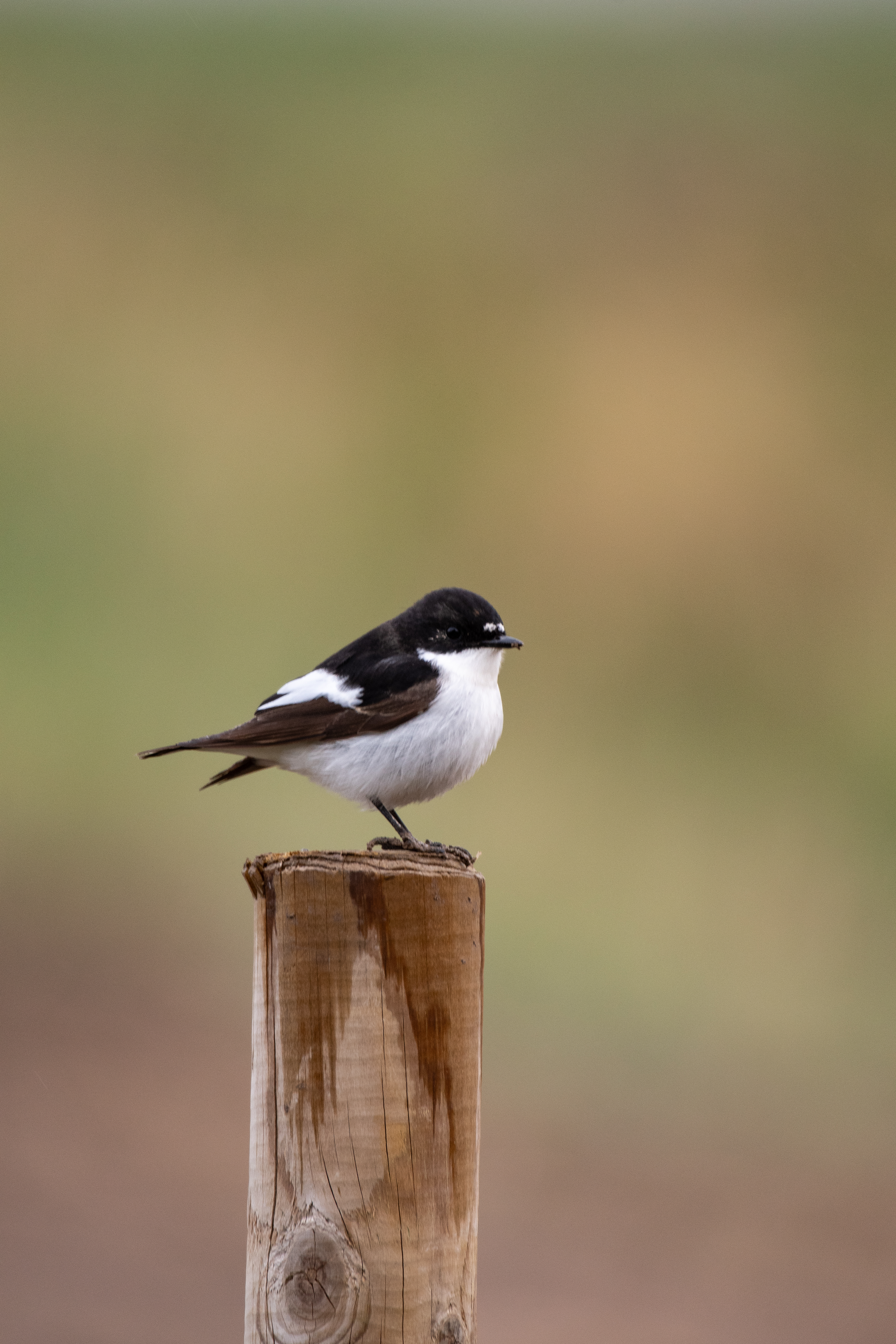 European pied flycatcher sitting on a fence pole and watching out over a field. Coordinates: 61.346606, 16.047282